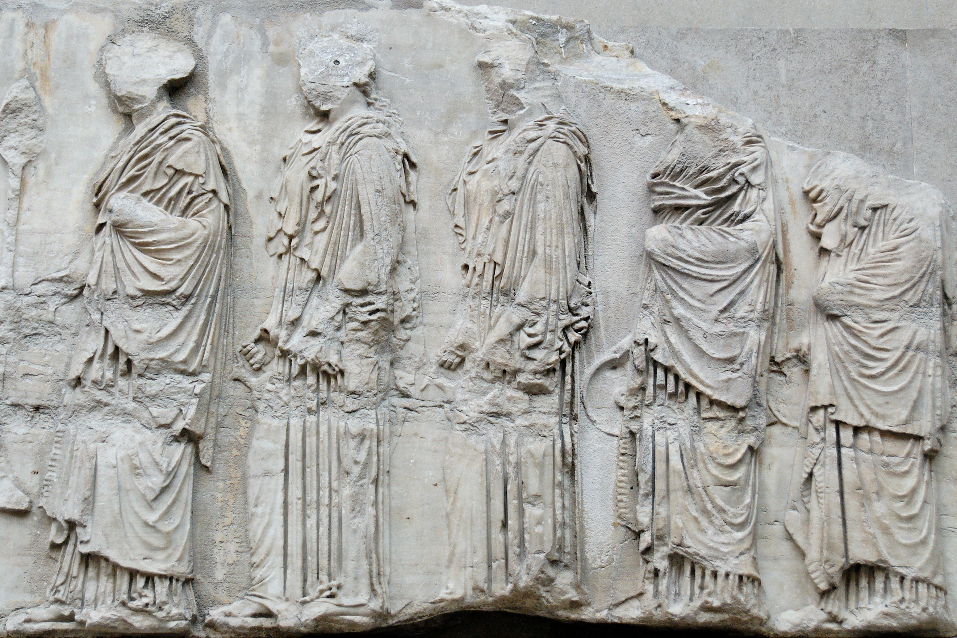 Girls walking in single line; the first one on the left carries a thymiaterion (incense burner), the others oinochoai (jugs) or phiales (bowls) for libations. Block VIII (fig. 57-61) from the East frieze of the Parthenon, ca. 447–433 BC.